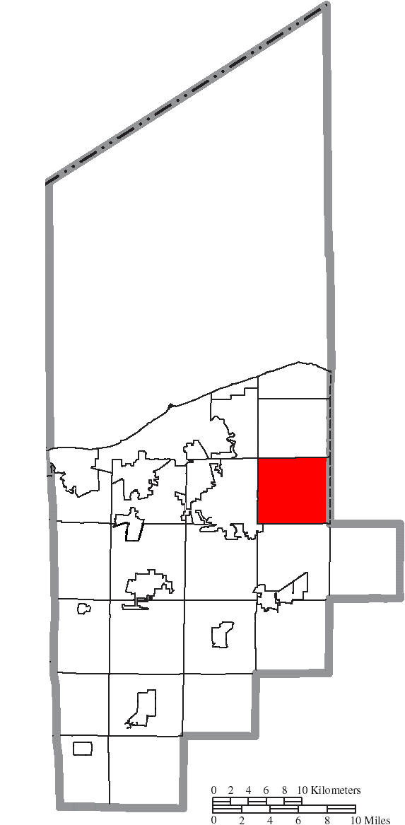 Map of the municipal and township boundaries of Lorain County, Ohio, United States, as of the 2000 census, with the location of the city of North Ridgeville highlighted. Township borders are shown only in unincorporated areas in order to differentiate incorporated and unincorporated areas more clearly.